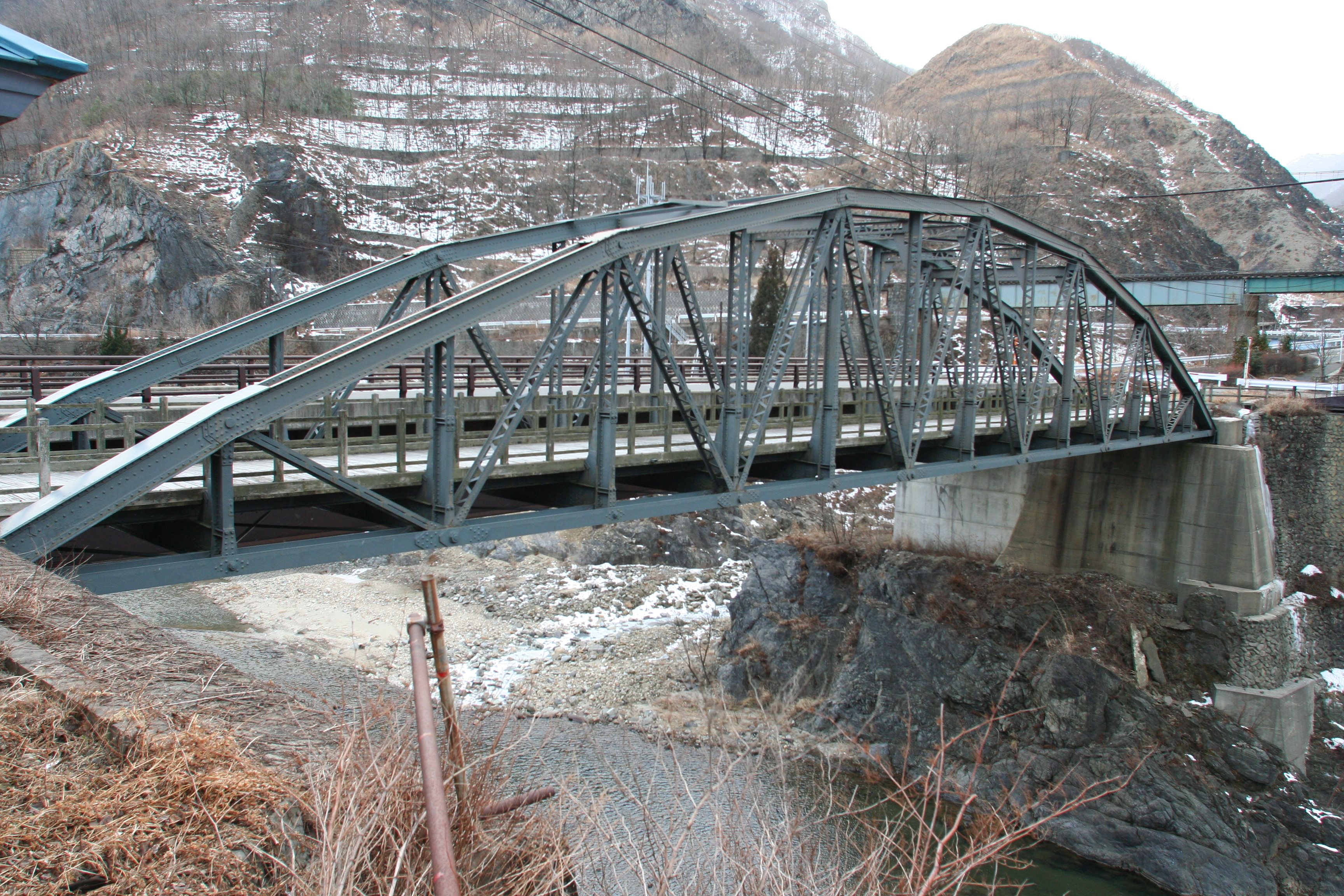 Furukawa Bridge of Nikko City, Tochigi Pref., Japan is made by HARKORT. It was completed in 1890.